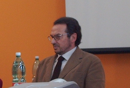 Beppe Lopez during a meeting at Galassia Gutenberg, a book fair